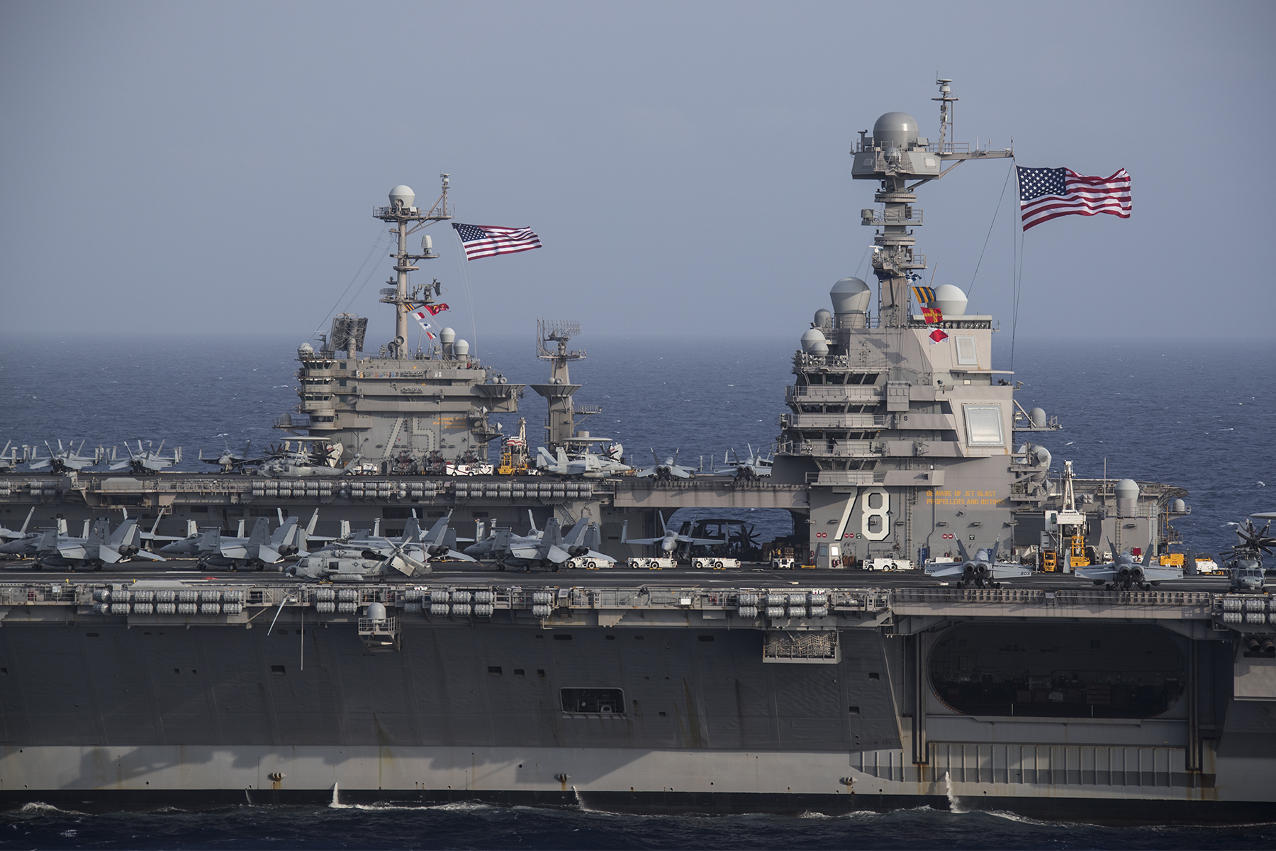 ATLANTIC OCEAN (June 4, 2020) The Ford-class aircraft carrier USS Gerald R. Ford (CVN 78) and the Nimitz-class aircraft carrier USS Harry S. Truman (CVN 75) transit the Atlantic Ocean, June 4, 2020.